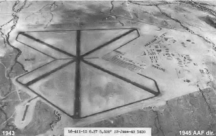 Ajo AAF AZ 23 June 1943